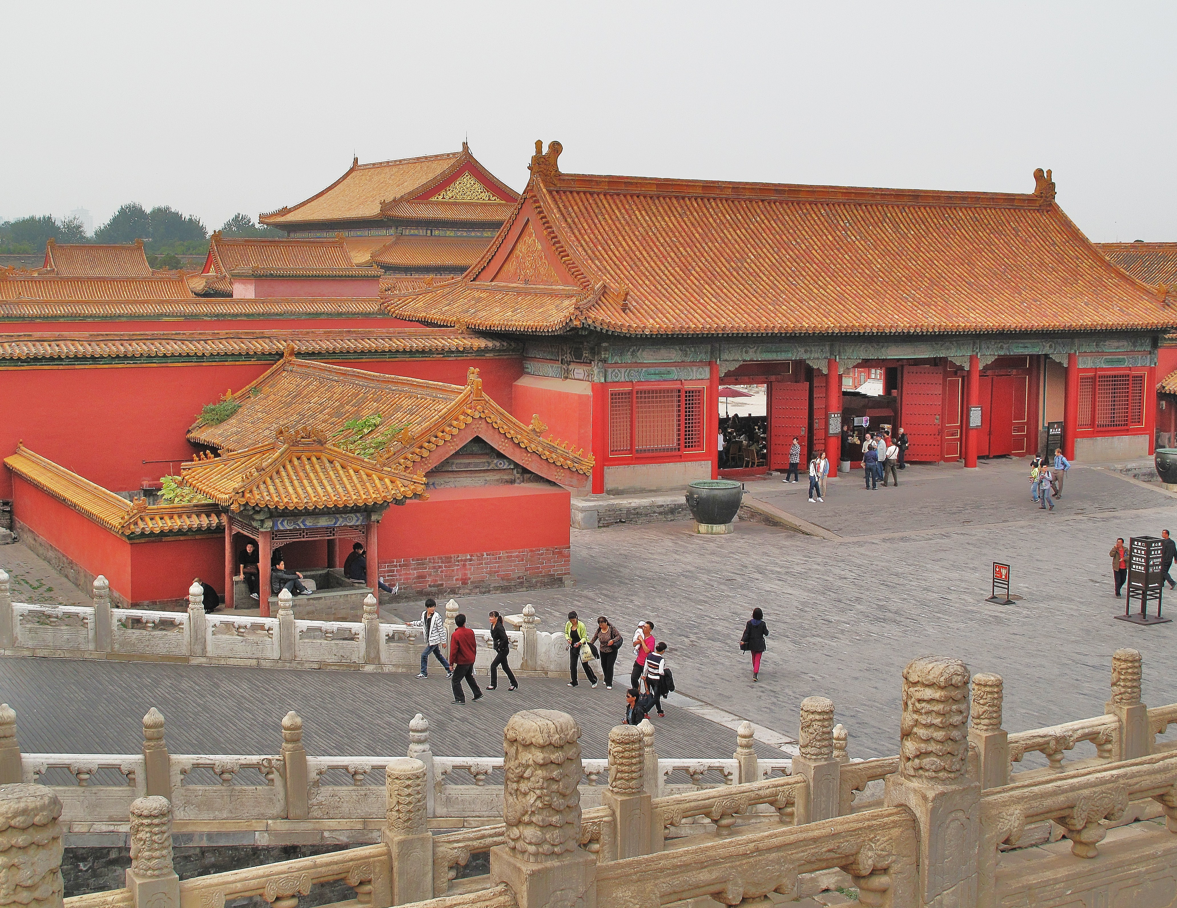 Palace of Heavenly Purity